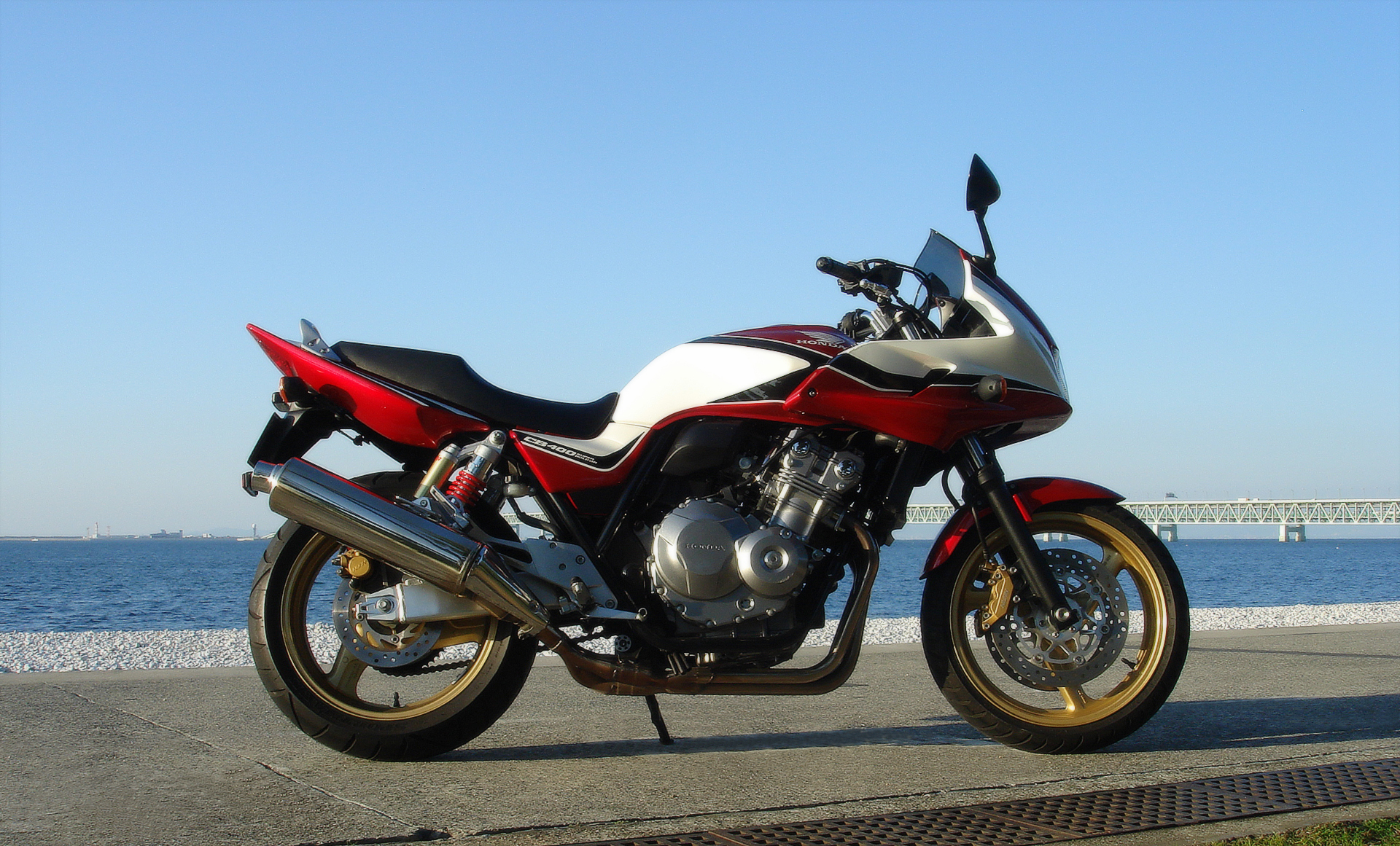 Honda CB400 SUPER BOL D'OR, HYPER VTEC Revo (NC42), 2009 model